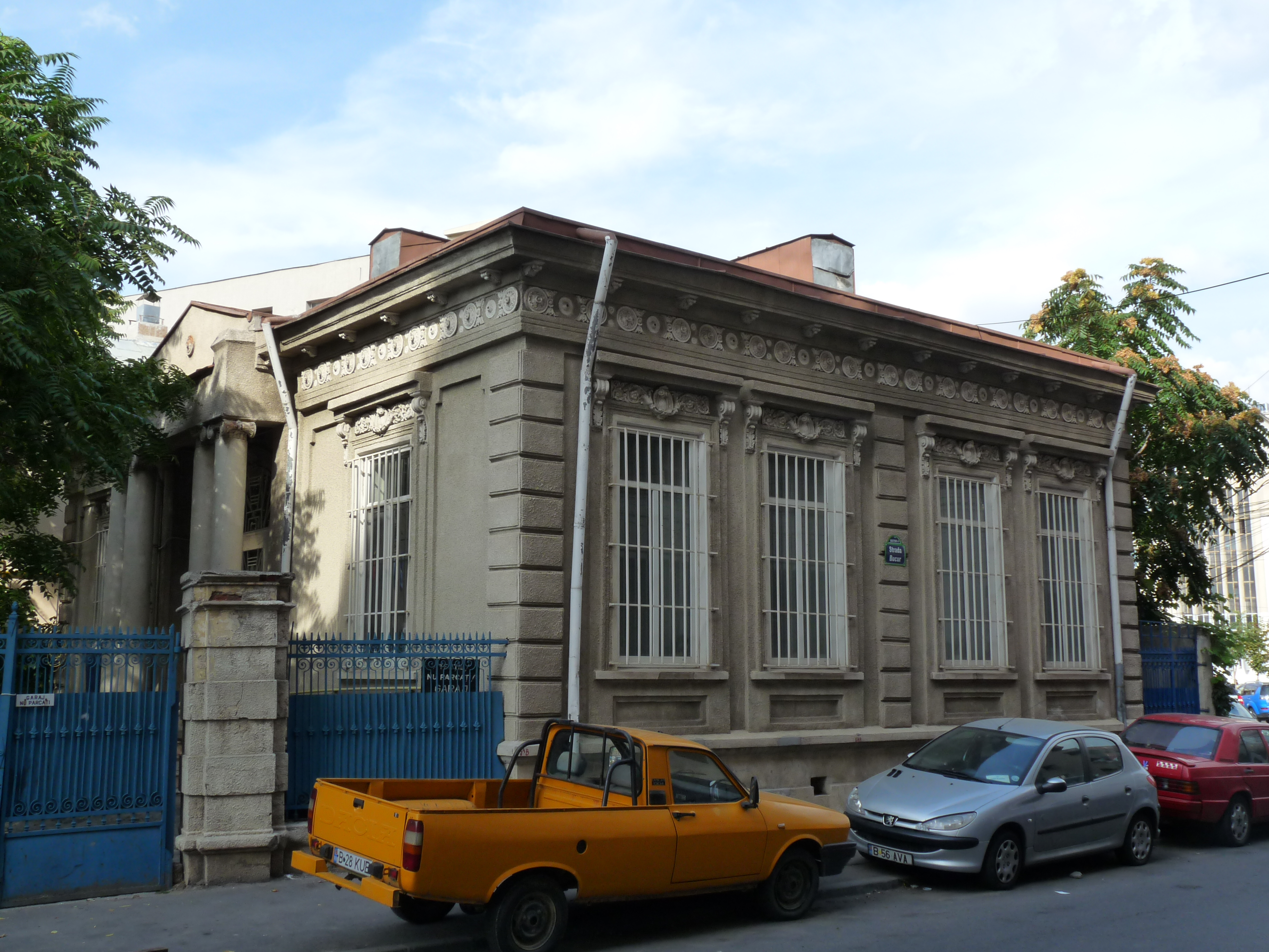 Historic building in Bucharest, Romania, on Bucur street 5Română: Clădire istorică în Bucureşti, România, str. Bucur 26